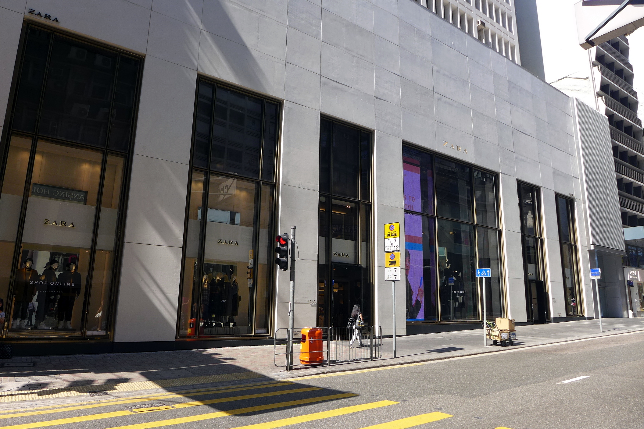 Crawford House ZARA Store